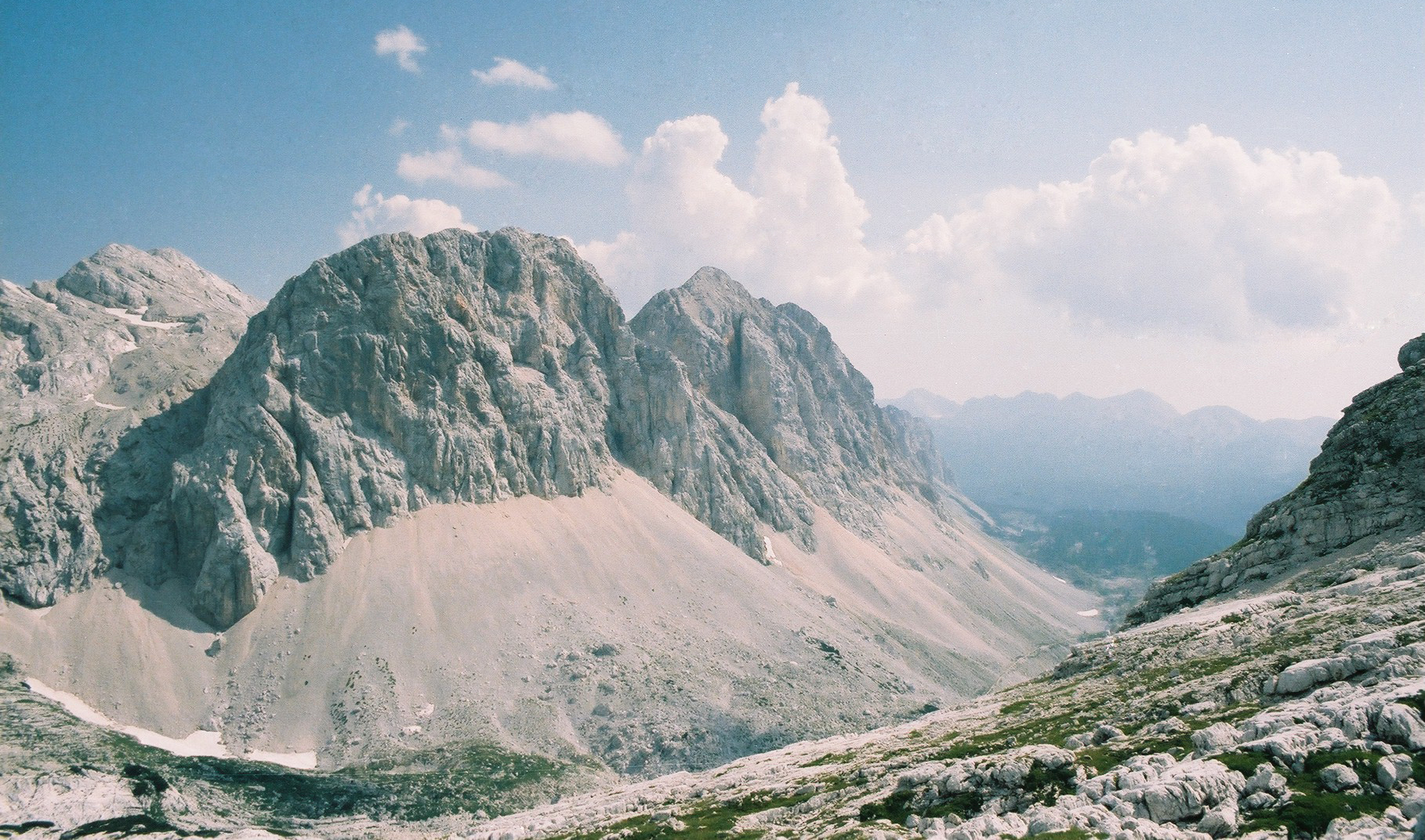 Zelnarica, mountain in Julian Alps, Slovenia.